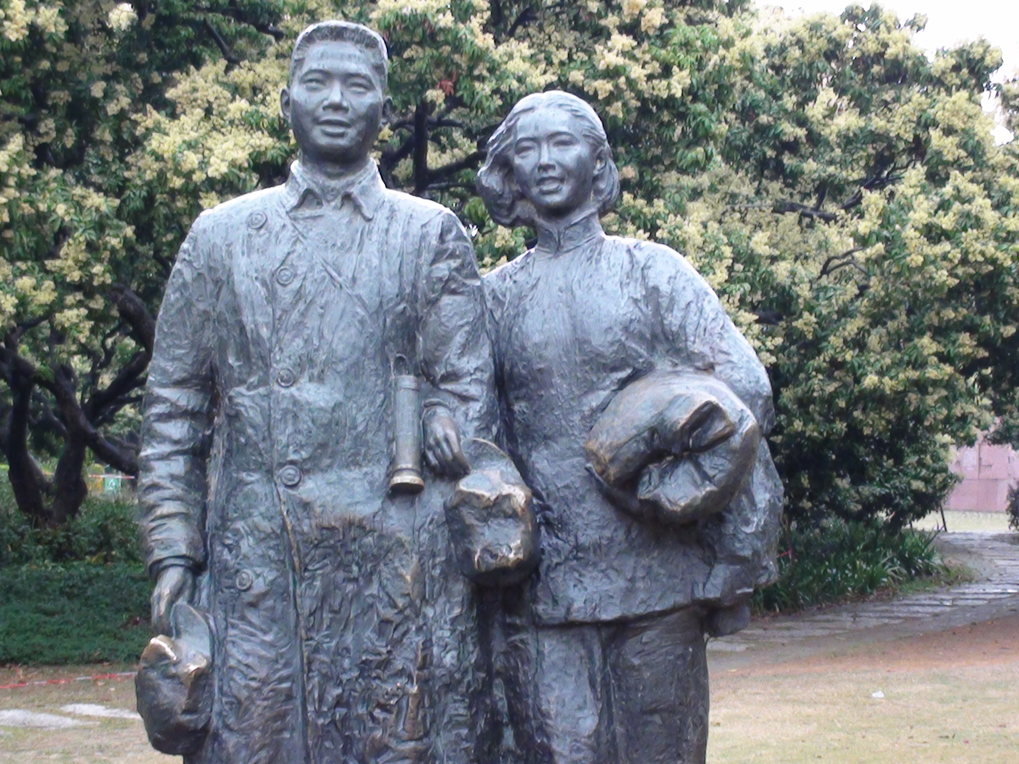 Zengsheng who was an early leader of CPC with his wife